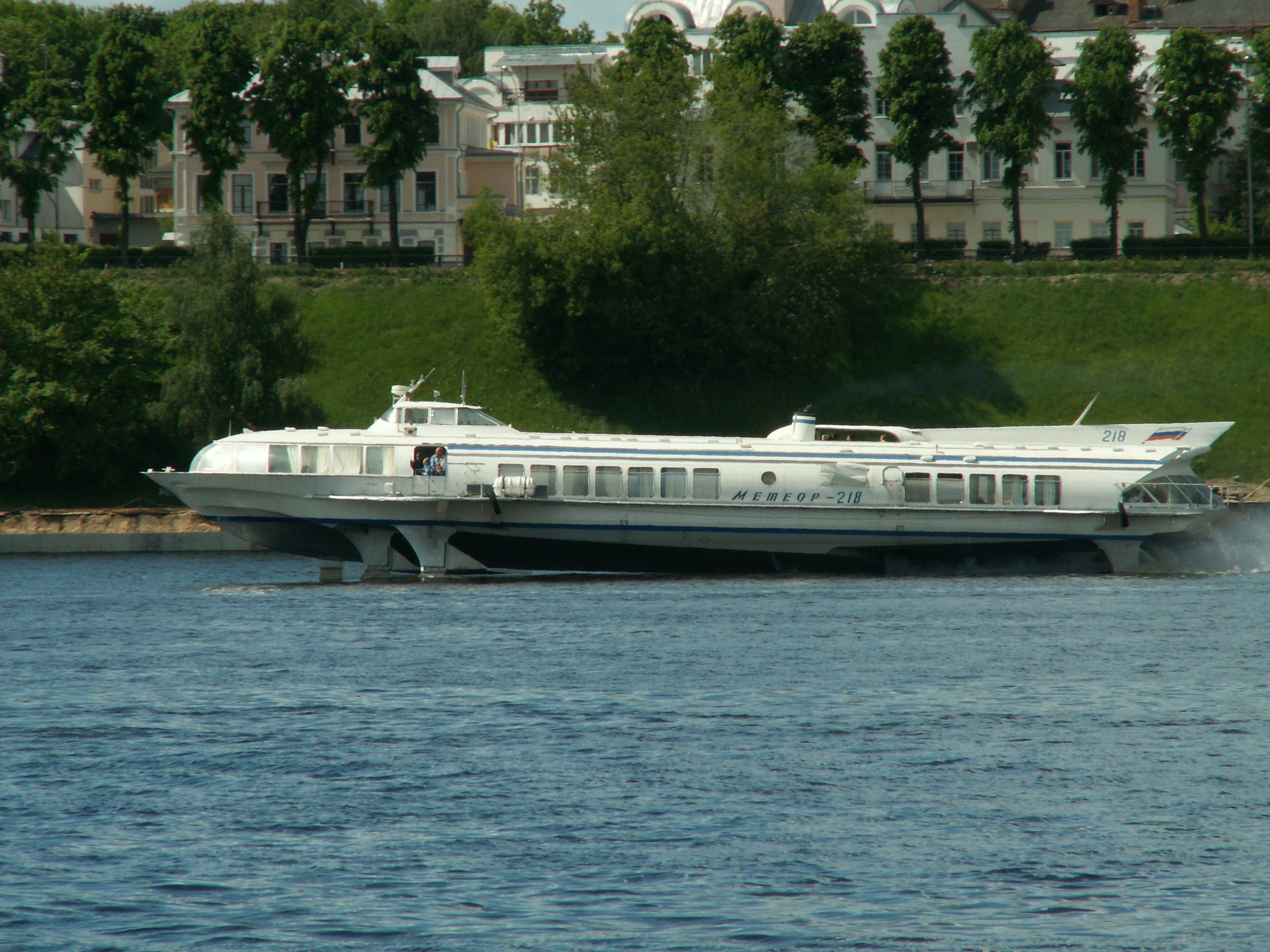 Meteor hydrofoil on Volga river, in Yaroslavl.